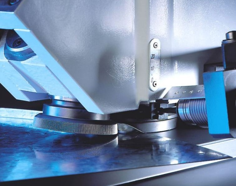 Flanging with the RAS 21.20 flanging machine